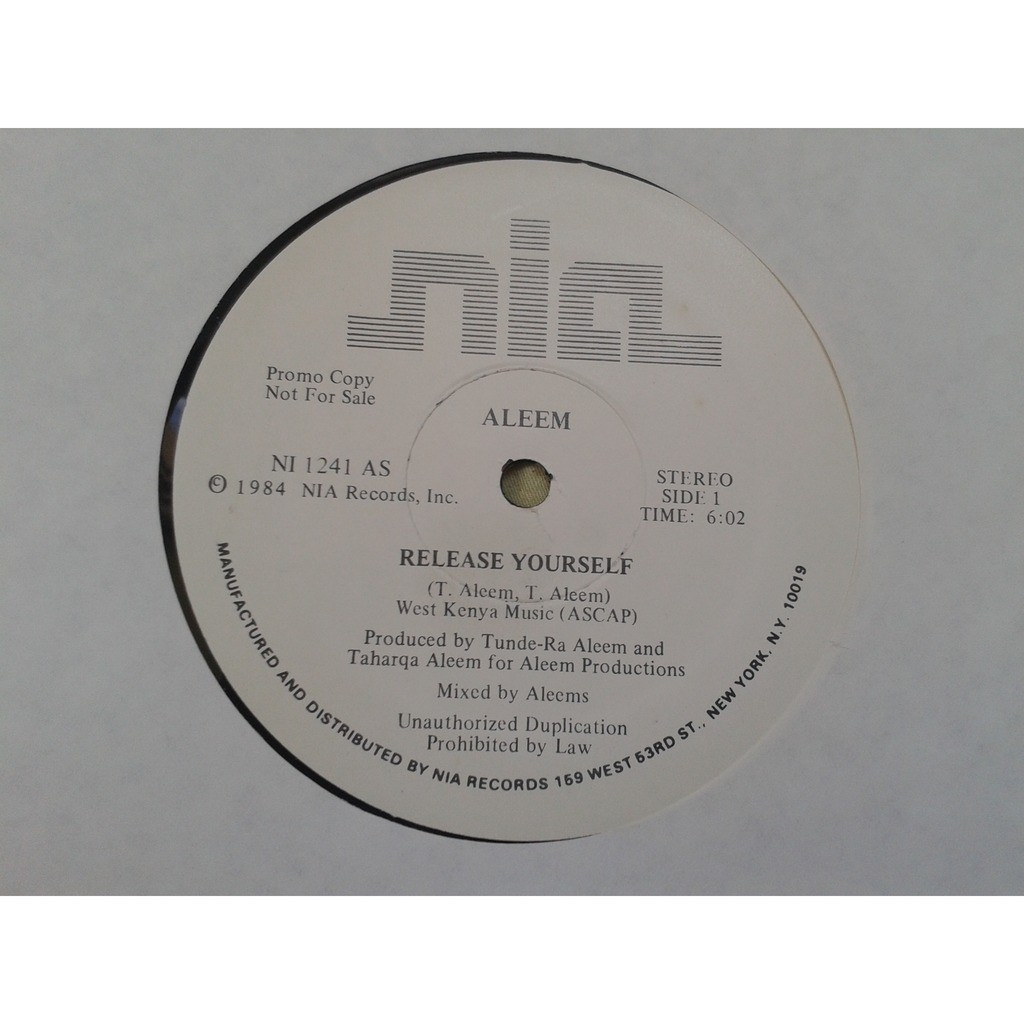 1984 NIA Records - Release Yourself